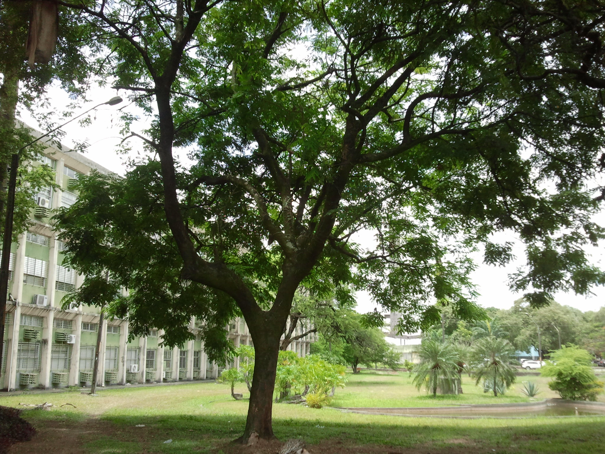 Carolina